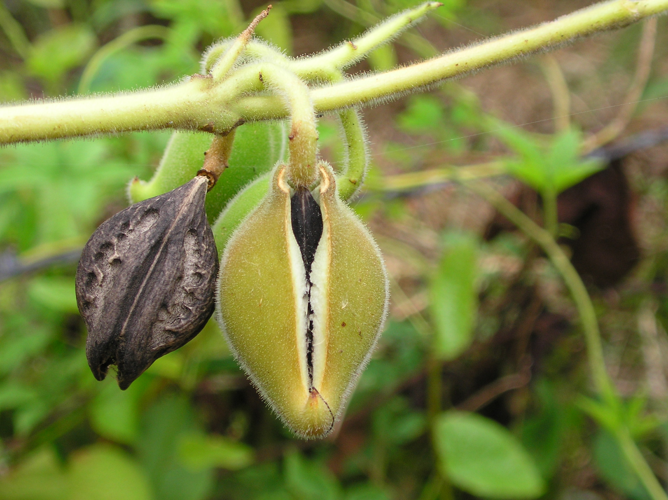 Family: Martyniaceae Distribution: Common in open waste places.Native of Tropical America and Naturalised in Indian sub continent. Viscid pubescent herbs. Drupes 1.5-2.5x 1-2cm greenish yellow fruits.The epicarp dehisces falls off. Endocarp black and woody, crowned by 2 sharp claws. The claws are hook like and attaches to the animal body. In Telugu it is known as Telukondikaya.